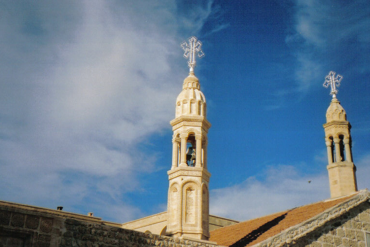 The towers of the (Assyrian) Syriac Orthodox Monastery of Mor Gabriel (St. Gabriel or Deyrulumur Monastery), near Midyat, Southeastern Turkey. (C) Gerry Lynch, 2003.